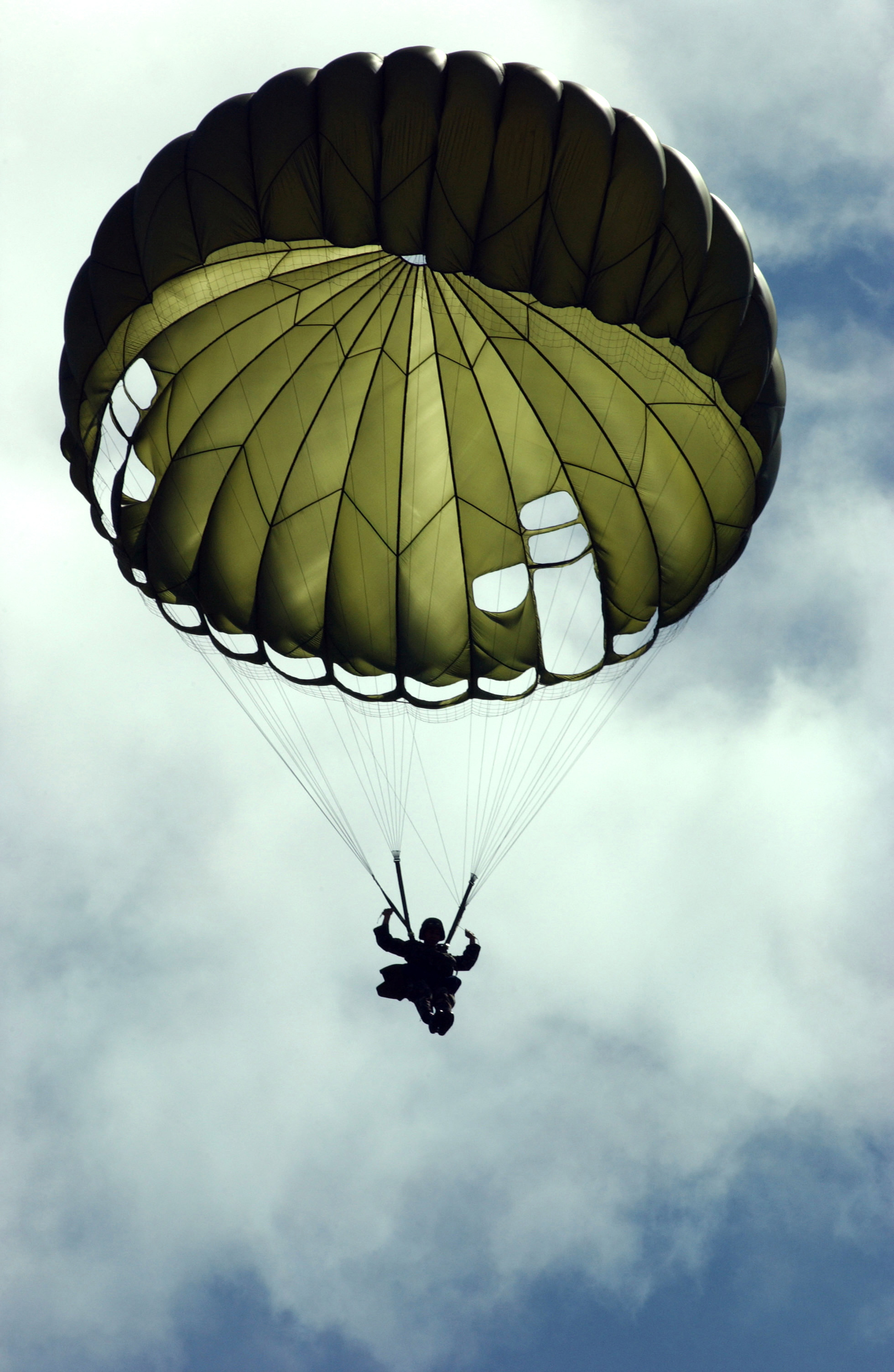 A Republic of the Philippines Marine Corps (PMC) Marine descends beneath his MC1-C parachute after jumping from a US Marine Corps (USMC) KC-130 Hercules aerial refueling and cargo aircraft while participating with more that 5,000 US and Philippine military forces in Exercise BALIKATAN 2006, a bilateral exercise that combines in the field combat training and humanitarian and civic assistance programs around Clark Air Field (AF), Pampanga, Philippines (PHL). VIRIN: 060226-F-2114K-049